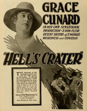 Advertisement in Moving Picture World, January 1918 for the American western drama film Hell's Crater (1918).